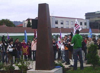 Description: Political act by Darréu. Darréu is a left-wing Asturian nationalist youth organization of Asturias.